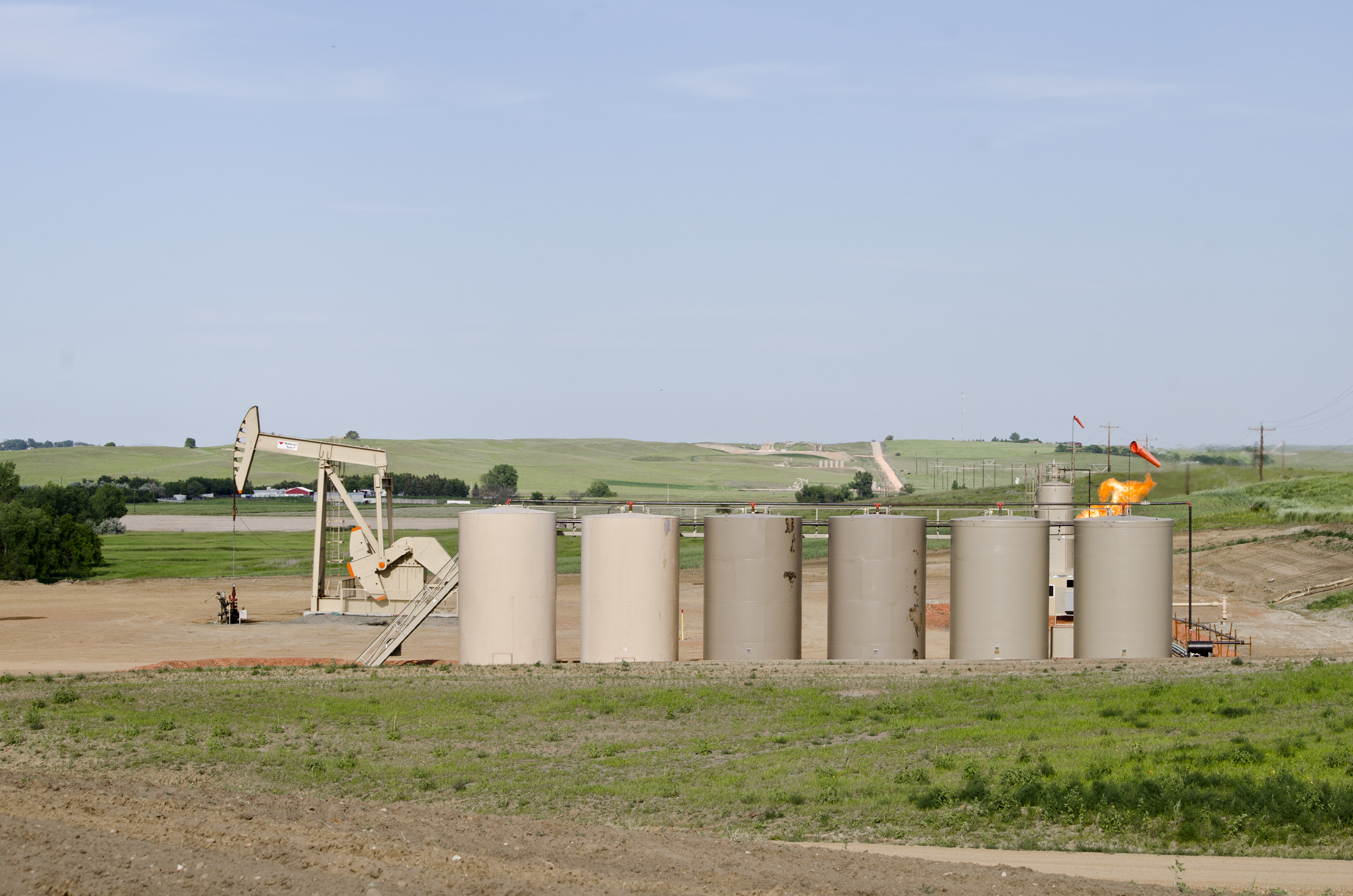 Looking west at the Orvis State well on the Evanson family farm in McKenzie County, North Dakota, east of Arnegard and west of Watford City. Note the six oil storage tanks. There are few pipelines in McKenzie County, and almost none of the them oil pipelines. Nearly all oil is trucked out, and semi trucks clog the local highways. Oil generally is trucked out only in good weather (most roads are dirt), so rainy or winter months there is little oil moving. In good weather, trucks run about 20 hours a day, and drivers do nothing but take empty trucks out, collect oil, take full trucks to the local processing plant, unload, and repeat. Note the natural gas flare. Natural gas is plentiful, and there is no way to get it out. So most of it is flared (burned) off.